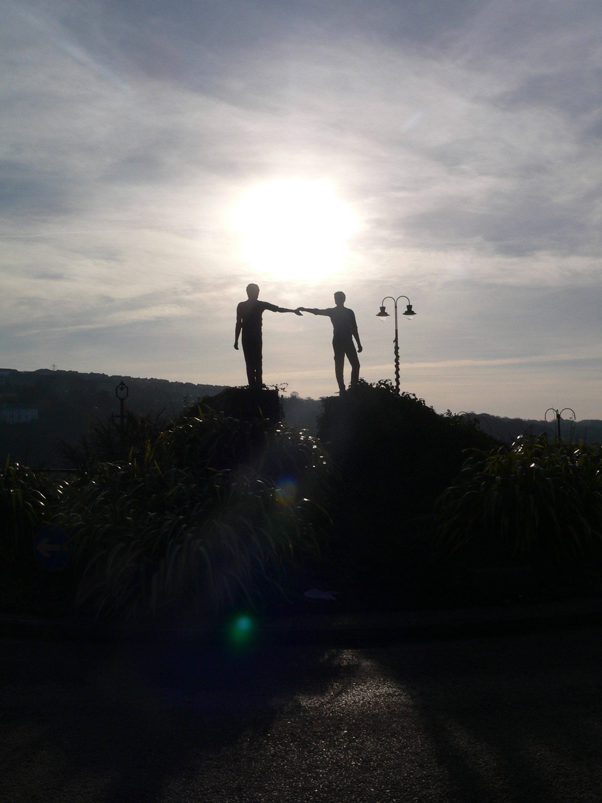 'Hands Across the Divide' sculpture, Derry, by Maurice Harron